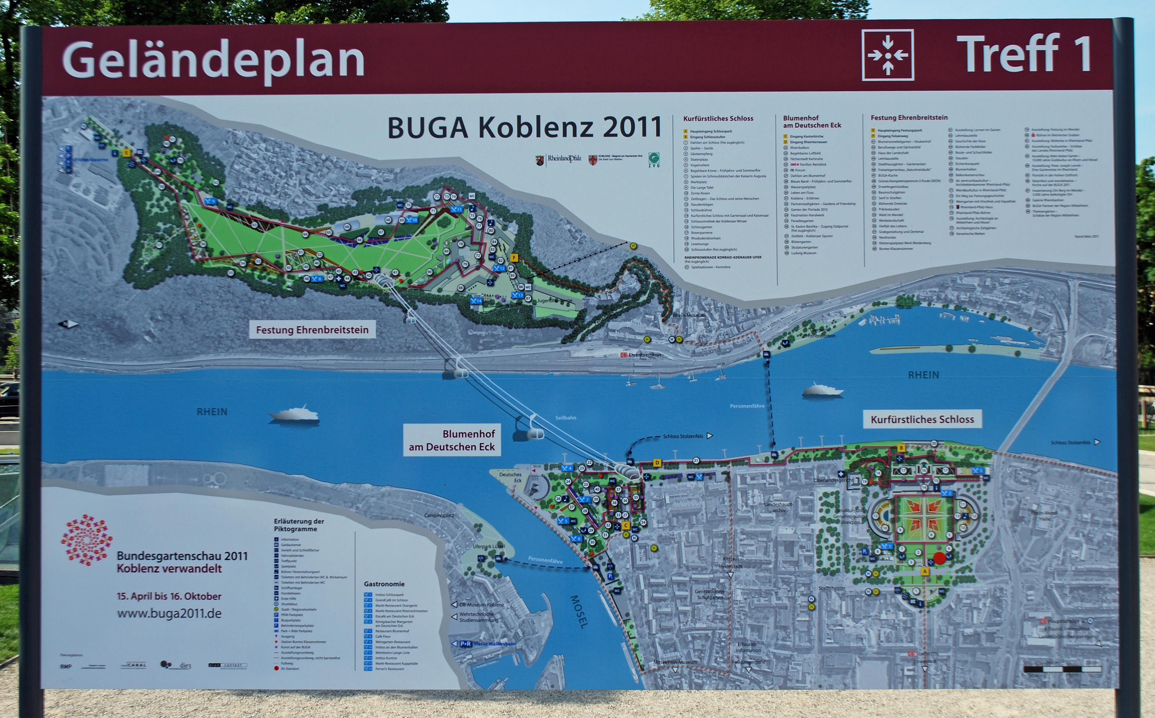 Federal Horticultural Show 2011 in Koblenz - Site of the show